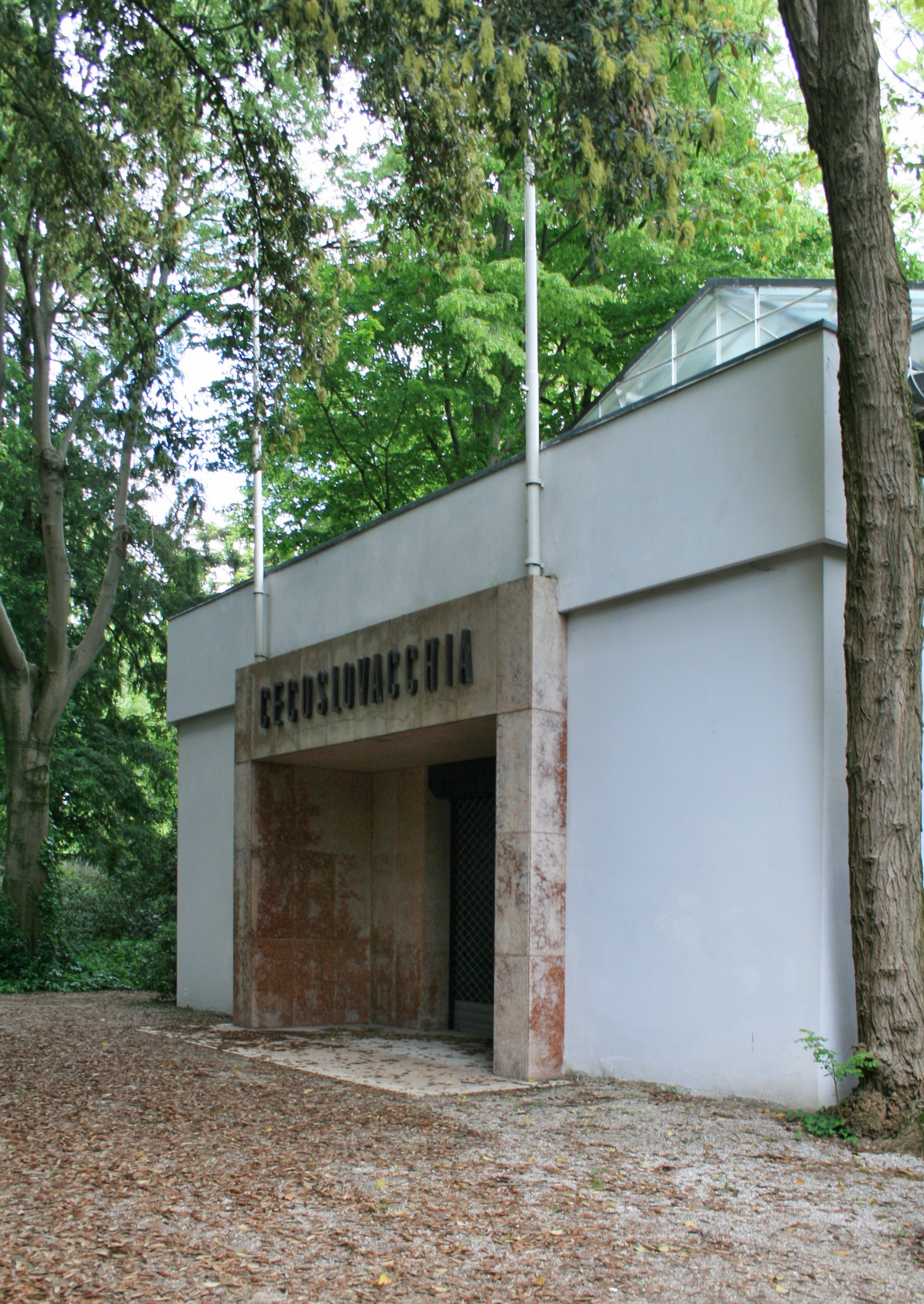 Czechoslovakia Pavilion at the Venice Biennale Park